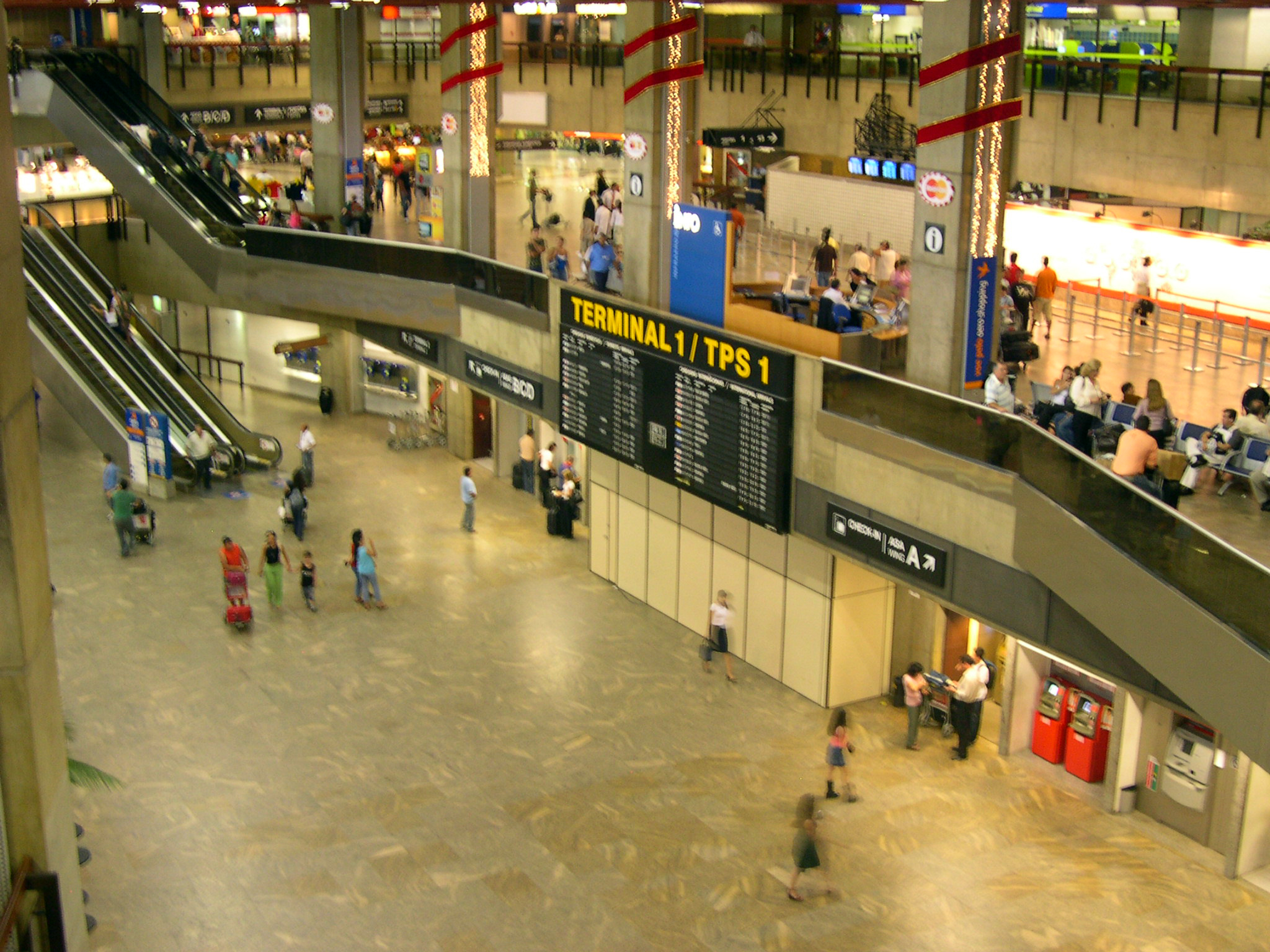 Internal view of São Paulo/Guarulhos International Airport's Terminal 1